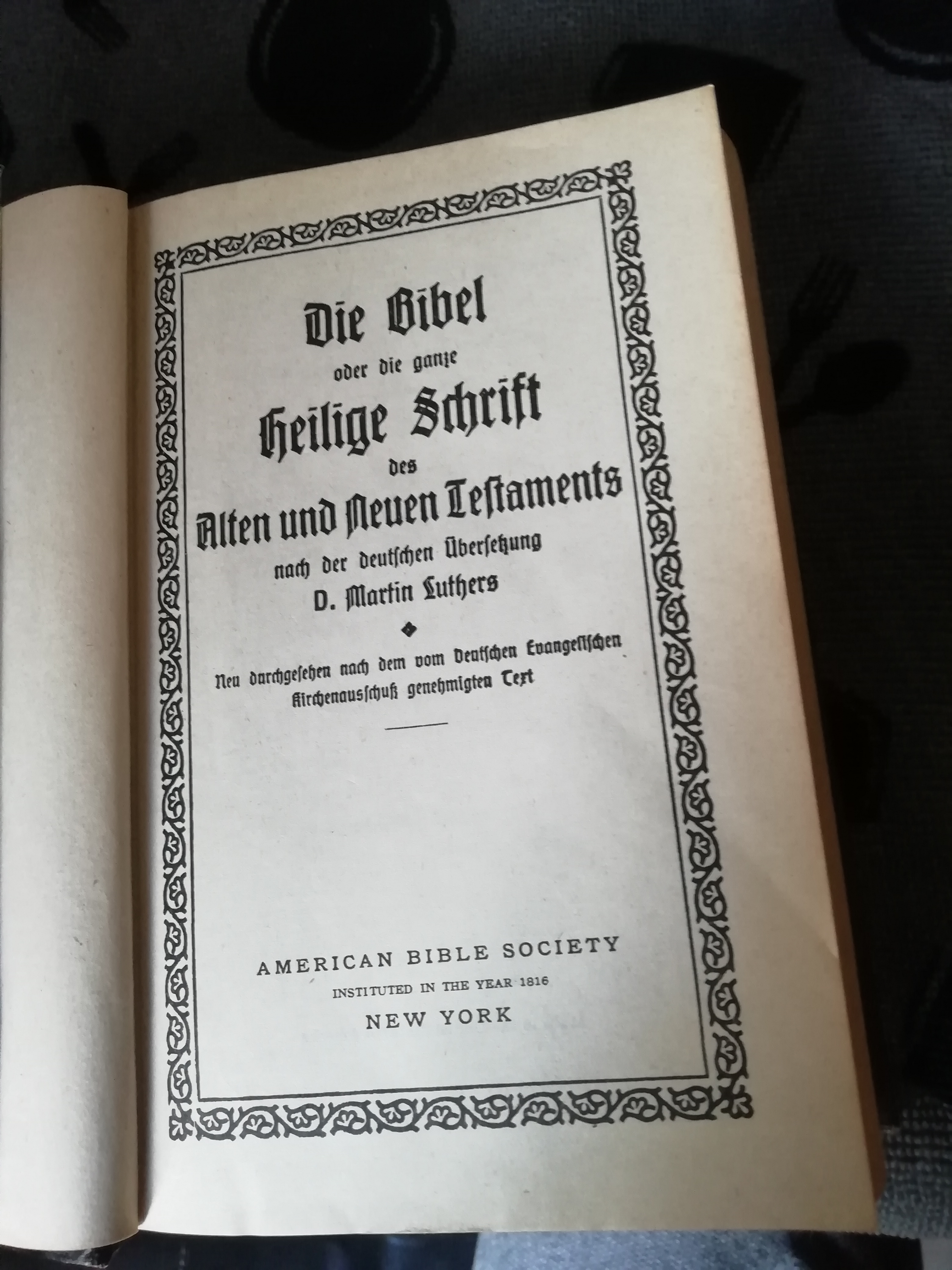 German version by Martin Luther of the Bible (Old and New Testament), without date, issued by the American Bible Society, New York.